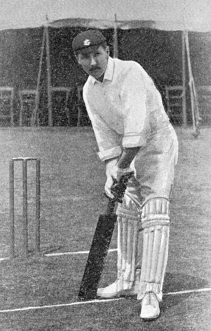 Scan of cricketer John Shuter